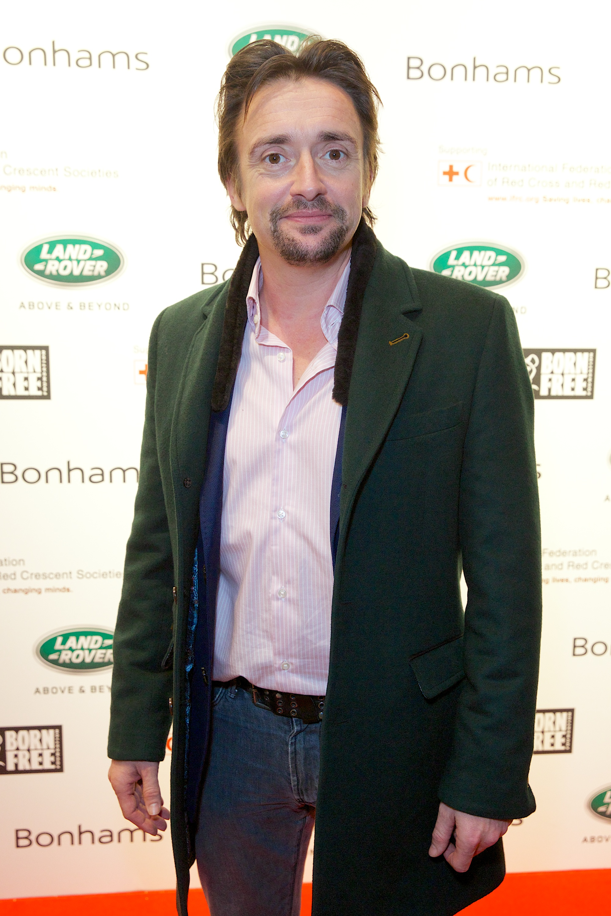 One-of-a-kind Land Rover ‘Defender 2,000,000’ sold for £400,000 at prestigious charity auction at Bonhams thought to be most valuable production Land Rover ever to be sold at auction